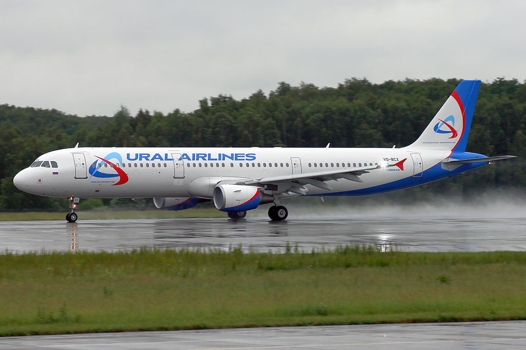 A Ural Airlines Airbus A321-211 at Domodedovo International Airport (DME / UUDD)